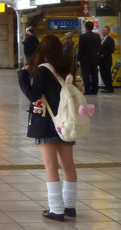 This high school girl is wearing the stereotypical fashion of high school girls in Japan, although loose socks (ルーズソックス) are not seen so often these days (navy blue socks currently being more common). She is also wearing a short skirt, another stereotype of high school girls. She also has straps hanging from her bag, and what not. Fairy stereotypical Japanese high school student.